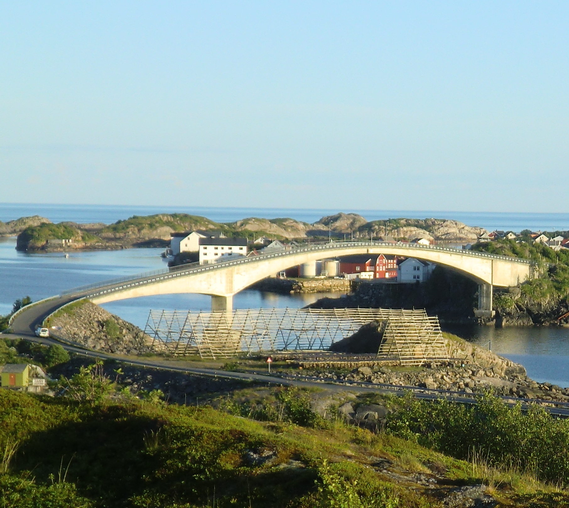 Towards Henningsvær, Lofoten islands, Norway